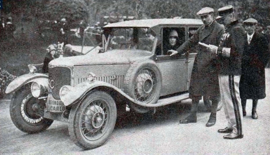 Entry #4 in the 1927 Rallye Monte Carlo is an A. C. (looks like a AC 16hp). It had 1,990 ccm engine, driven by Mildred Bruce (maybe best known as "Mrs Victor Bruce"). She ended 6th overall and won the women's class.[1]